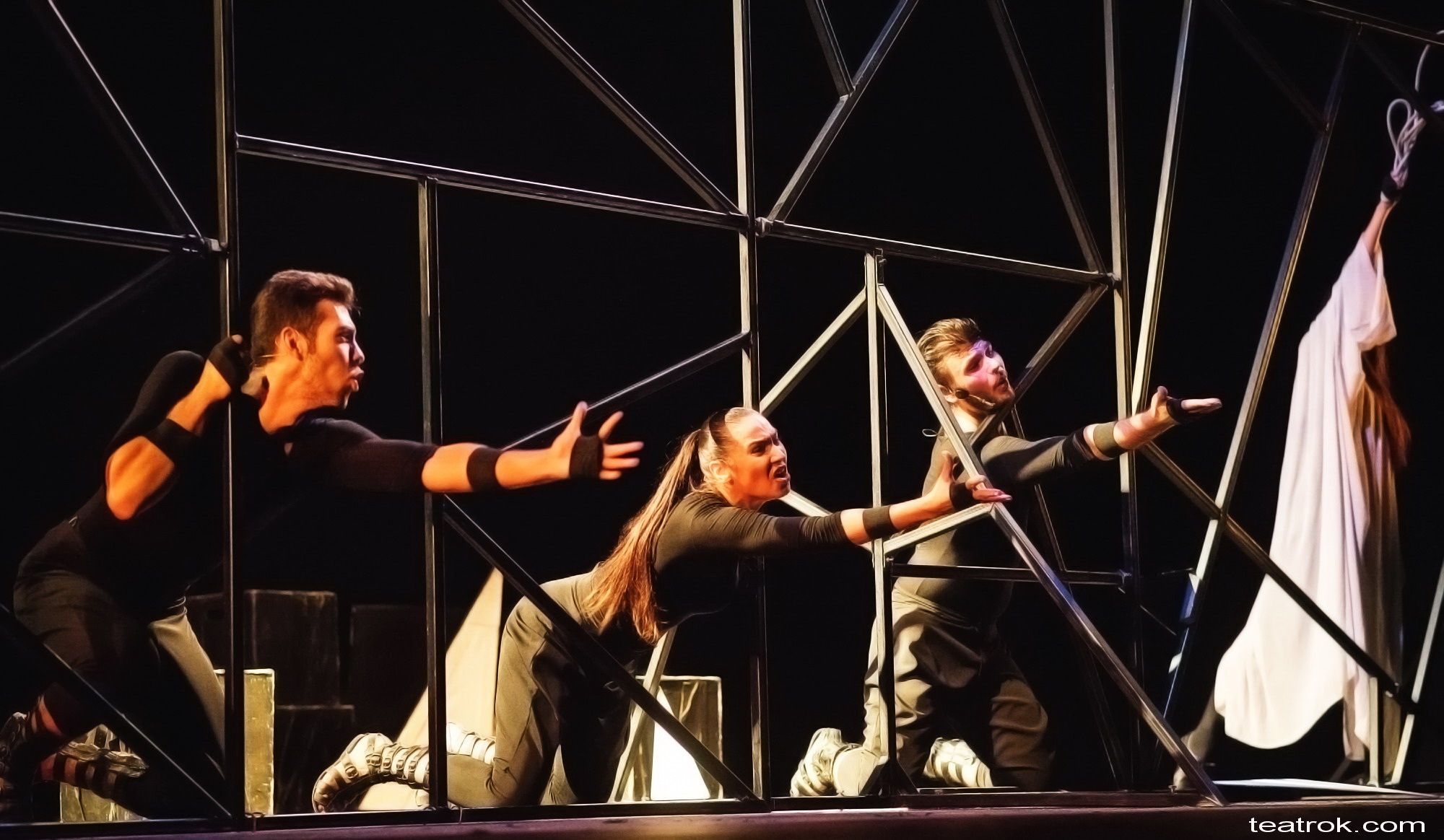 Futuristic opera (music drama) «2014» A story of crimes of soviet communists. Libretto and music by Oleksii Kolomiytsev